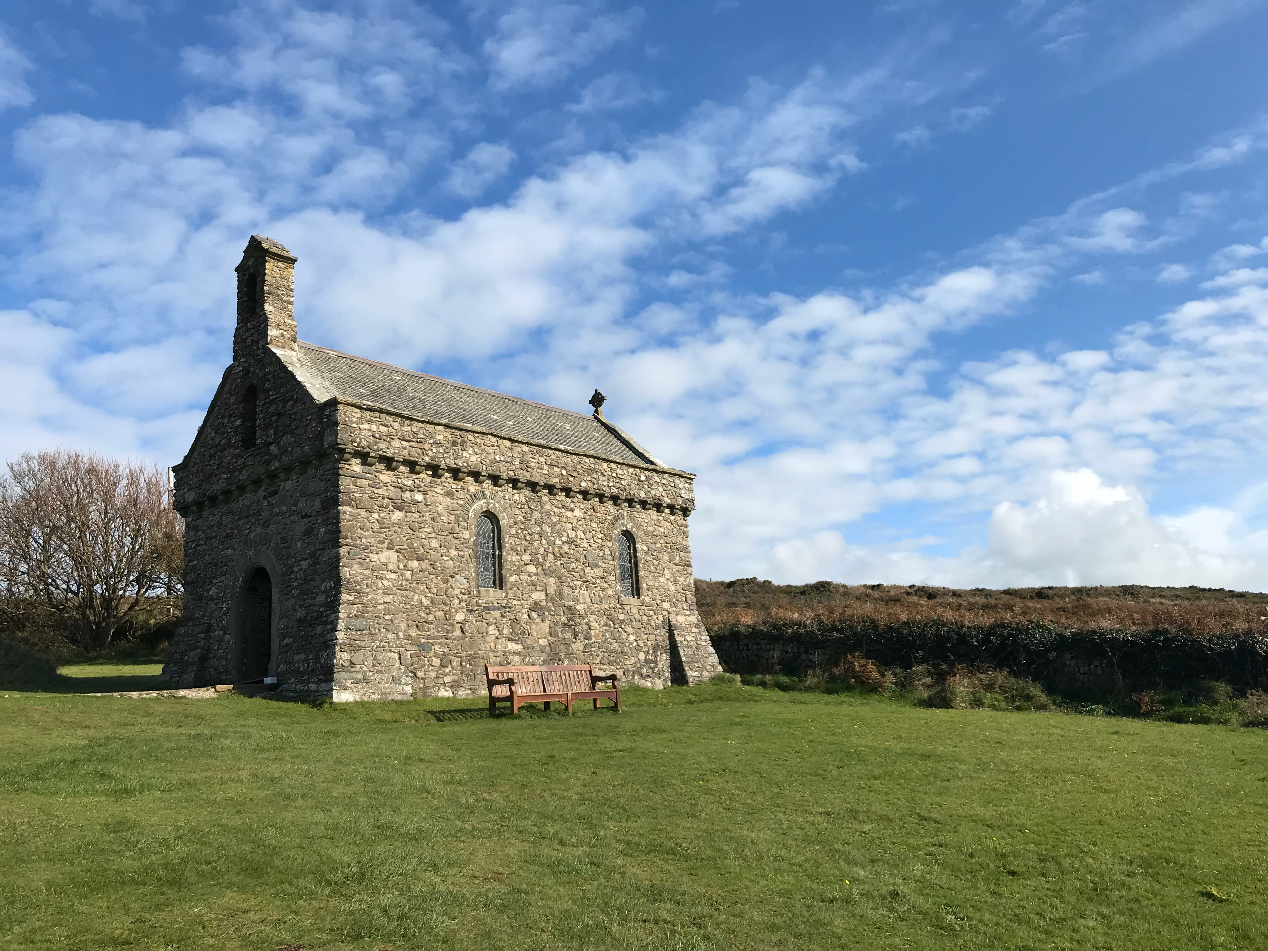 Photograph of the Chapel of Our Lady and St. Non in Pembrokeshire, Wales